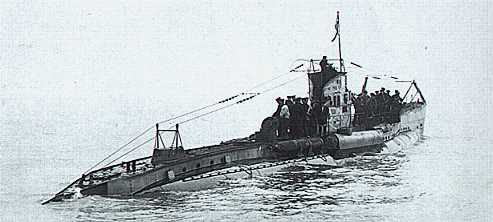 UC-95 type UCIII U-boat for mining ops, post war given to Great Britain after WWI ended